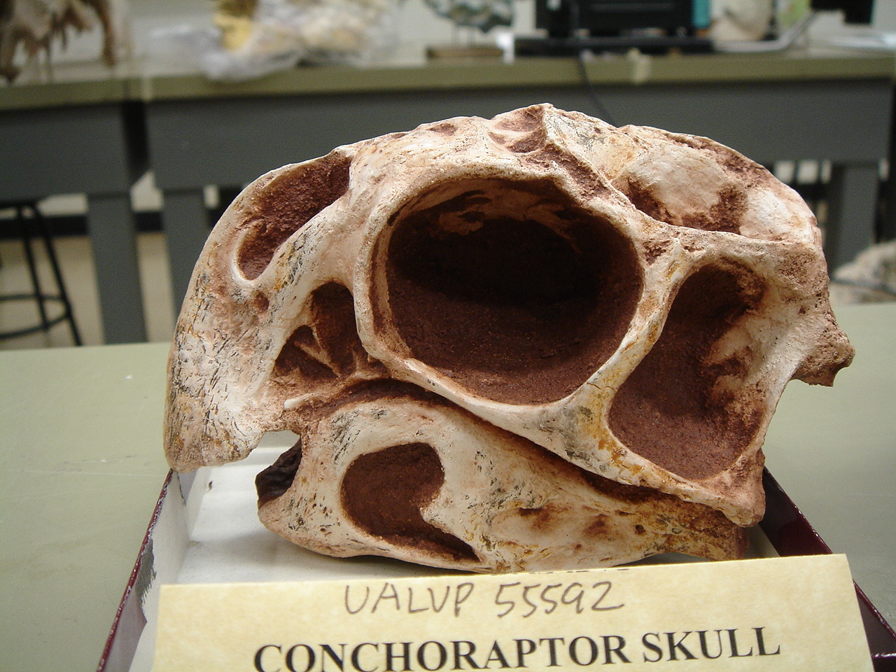 Skull of Conchoraptor